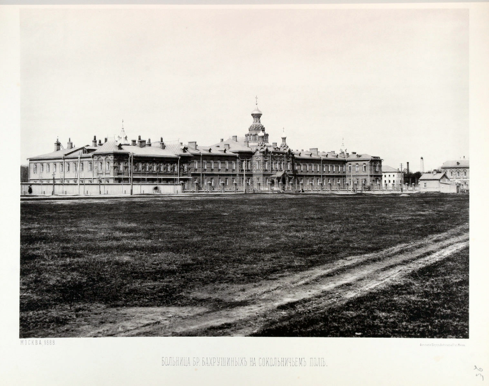 Plate 25: The Bahrushin hospital (actually, more like a hospice for the incurable) in Sokolniki. Built in 1882-1885 by Bahrushin family. The field in front of the camera was later rebuilt into the Boev Almshouse, perfectly centered against the Bahrushin building.